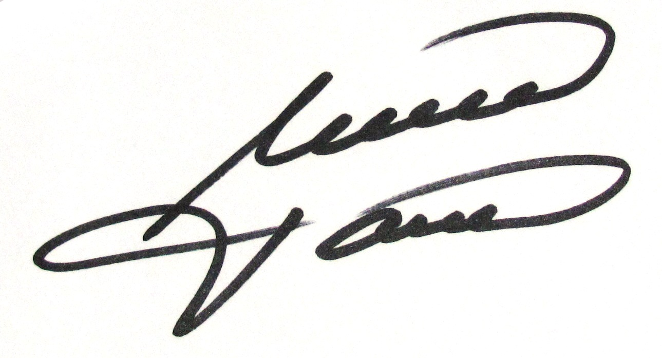 Signature of Michal David, Czech singer and songwriter (2009)